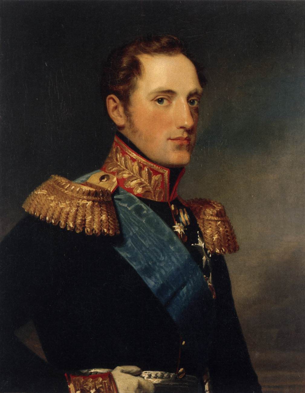 Portrait of Grand Duke Nikolai Pavlovich